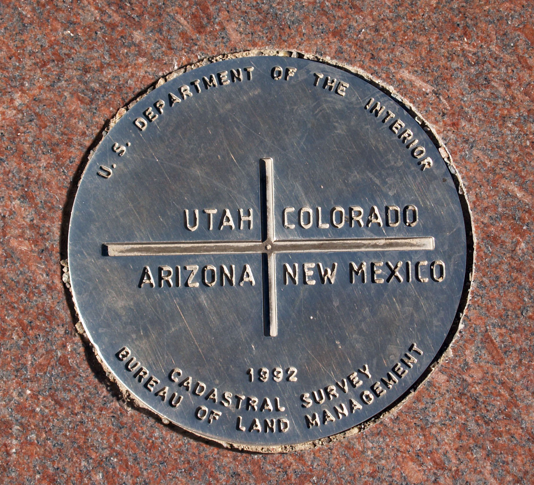 A photo of the exact spot where Arizona, Colorado, New Mexico and Utah come together. This is called "Four Corners."